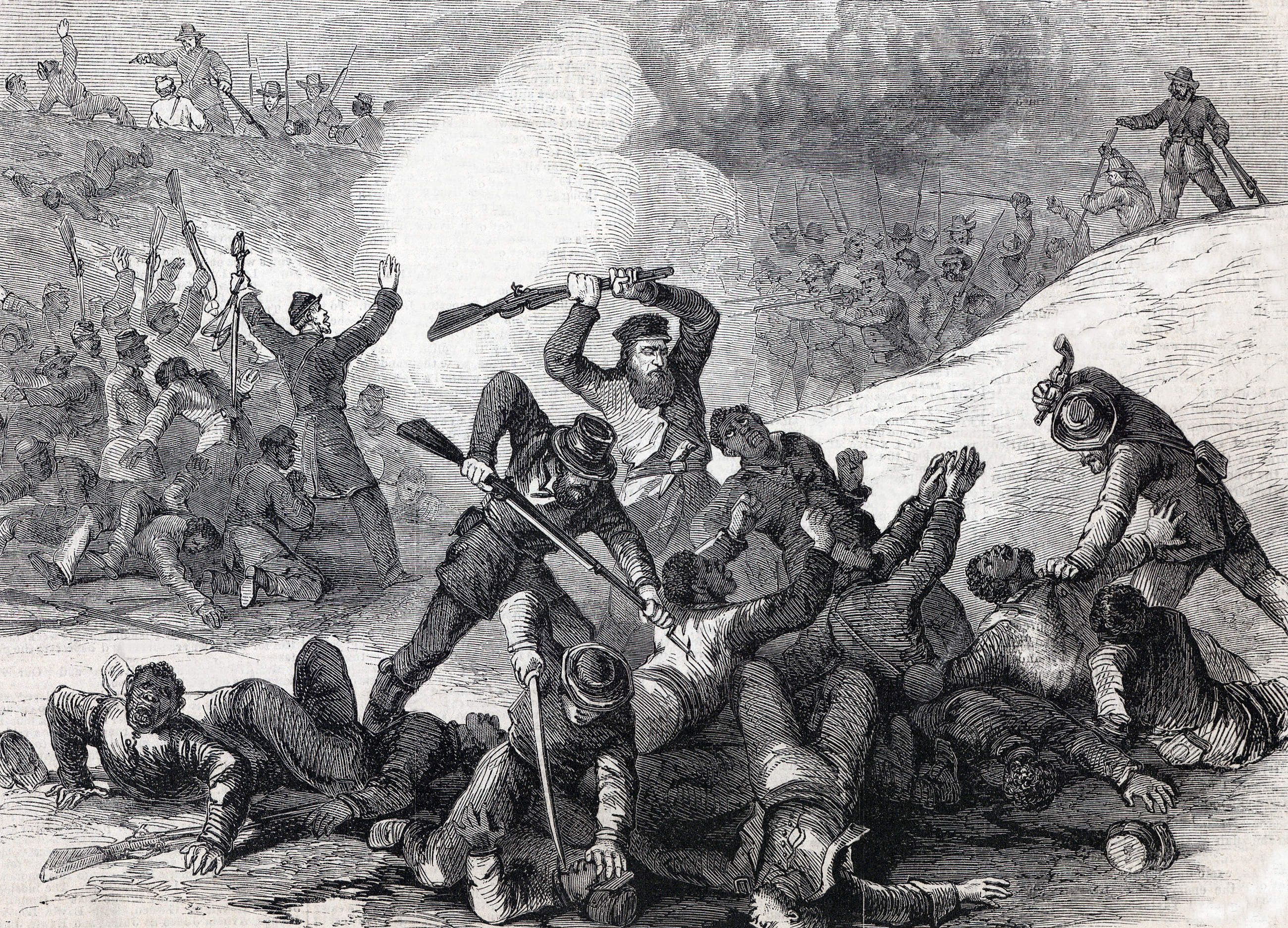 The war in Tennessee : Confederates massacre Union soldiers after they surrender at Fort Pillow, April 12th, 1864.